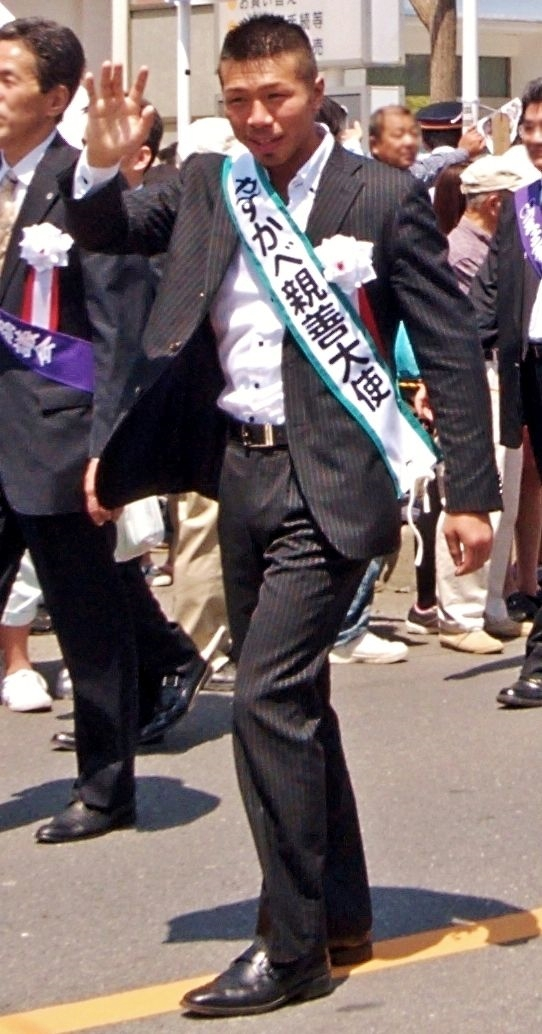 Takashi Uchiyama during his triumphal parade in his hometown Kasukabe, Saitama, Japan, during 2012 Kasukabe Fuji Festival.